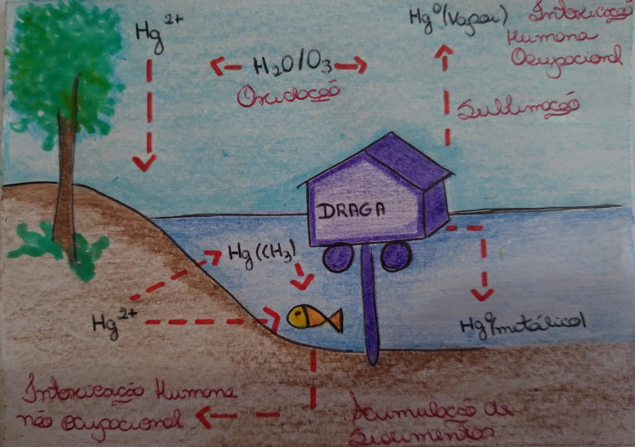 Mercury cycle in the environment related to mining